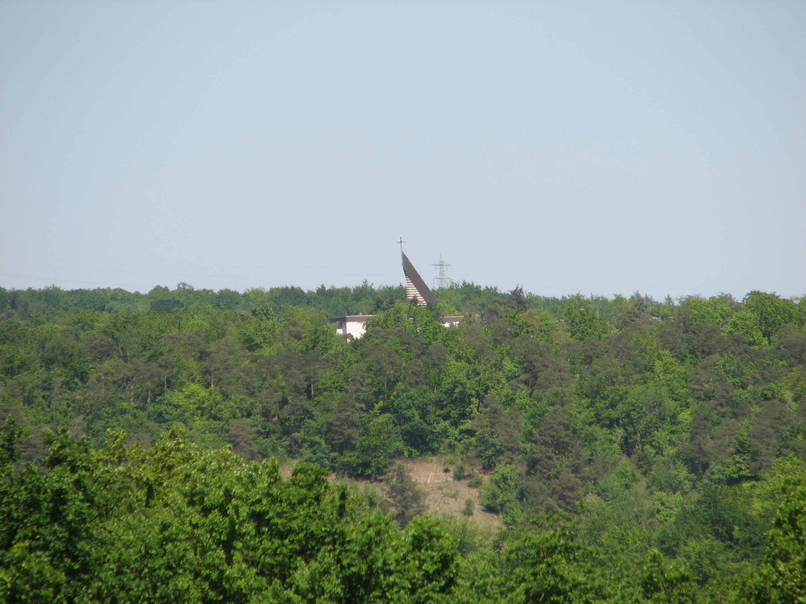 Waldstadt, part of Mosbach